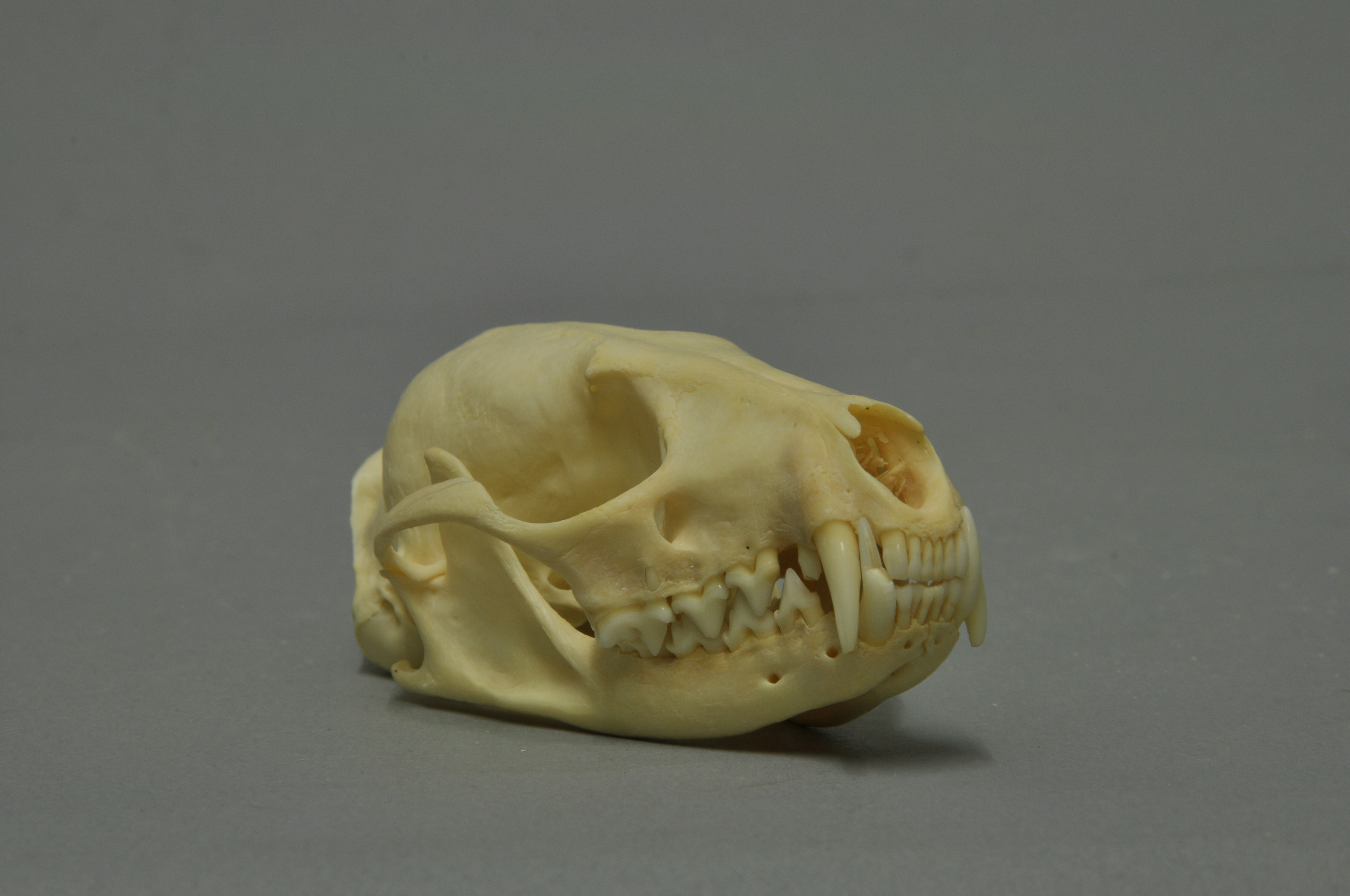 Crested servaline genet Genetta cristata, skull, Coll. Museum Wiesbaden